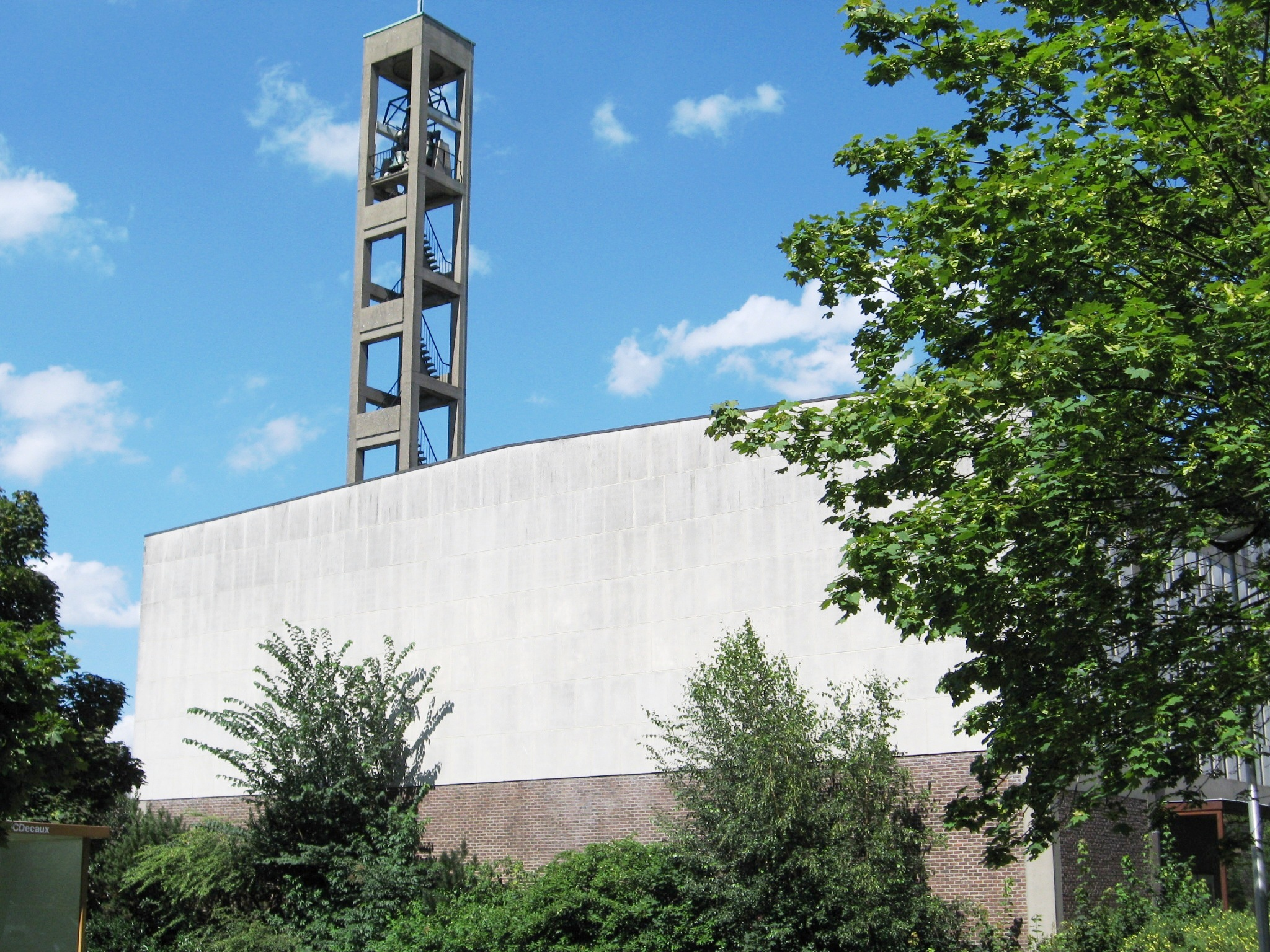 Church of Saint Martin in Hasselt, Limburg, Belgium